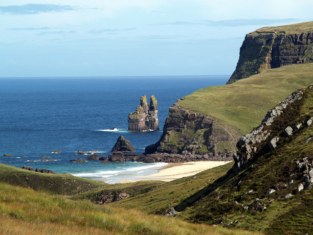 Kearvaig Beach and Cathedral Rock Although this photo was taken from NC2872 the principal content is really the beach in NC2972. There is a bothy just out of sight allowing some to have this beach to themselves on most days of the year.